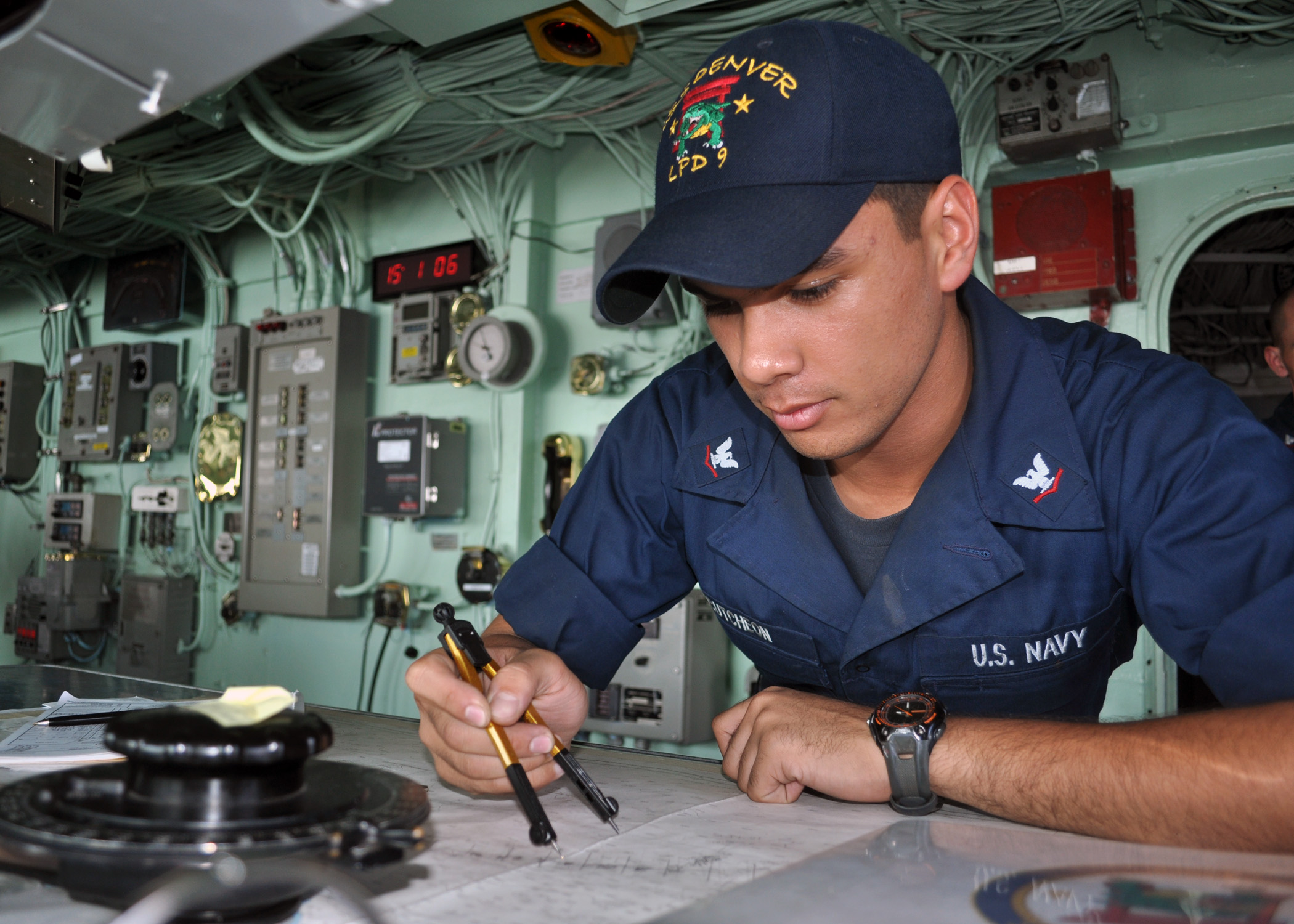 PACIFIC OCEAN (Aug. 13, 2011) Quartermaster 3rd Class Scott McCutcheon plots the ship's position in the pilothouse of the amphibious transport dock ship USS Denver (LPD 9). Denver is part of the permanently forward-deployed Essex Amphibious Ready Group and is underway in the western Pacific Ocean. (U.S. Navy photo by Mass Communication Specialist 2nd Class Bryan Blair/Released)